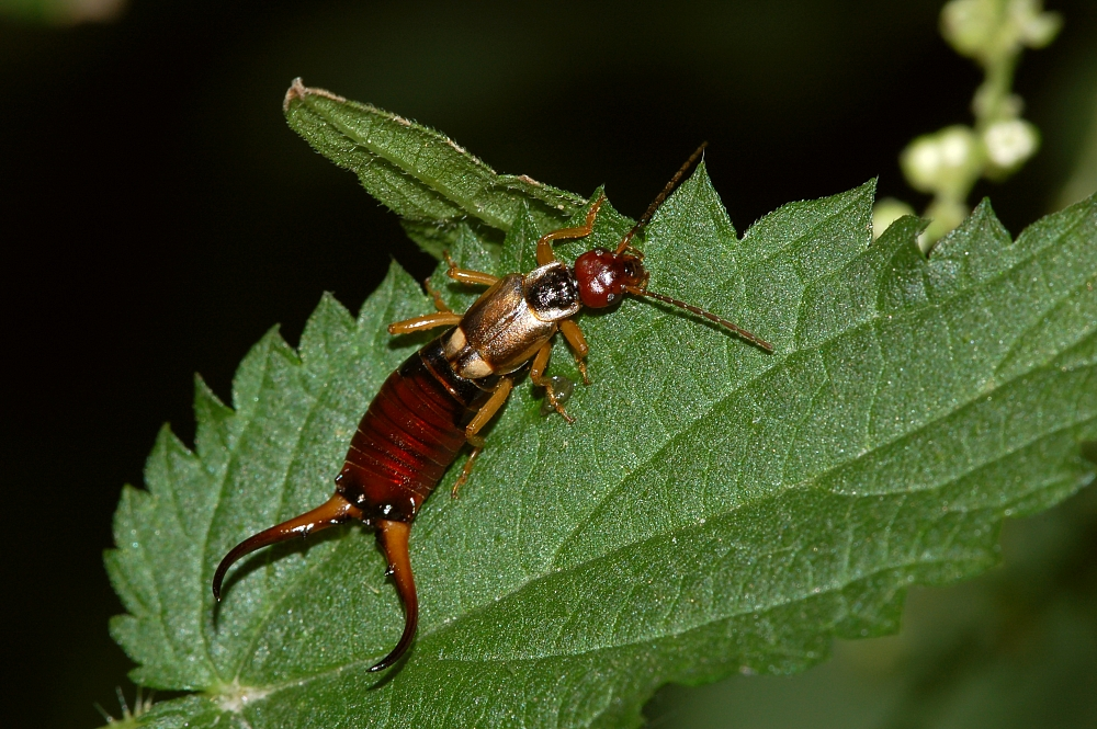 Adult male common earwig (Forficula auricularia), Schwanheim Dune, Frankfurt/Main, Germany